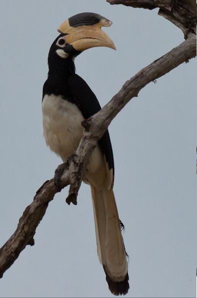 Anthracoceros coronatus Malabar Pied Hornbills